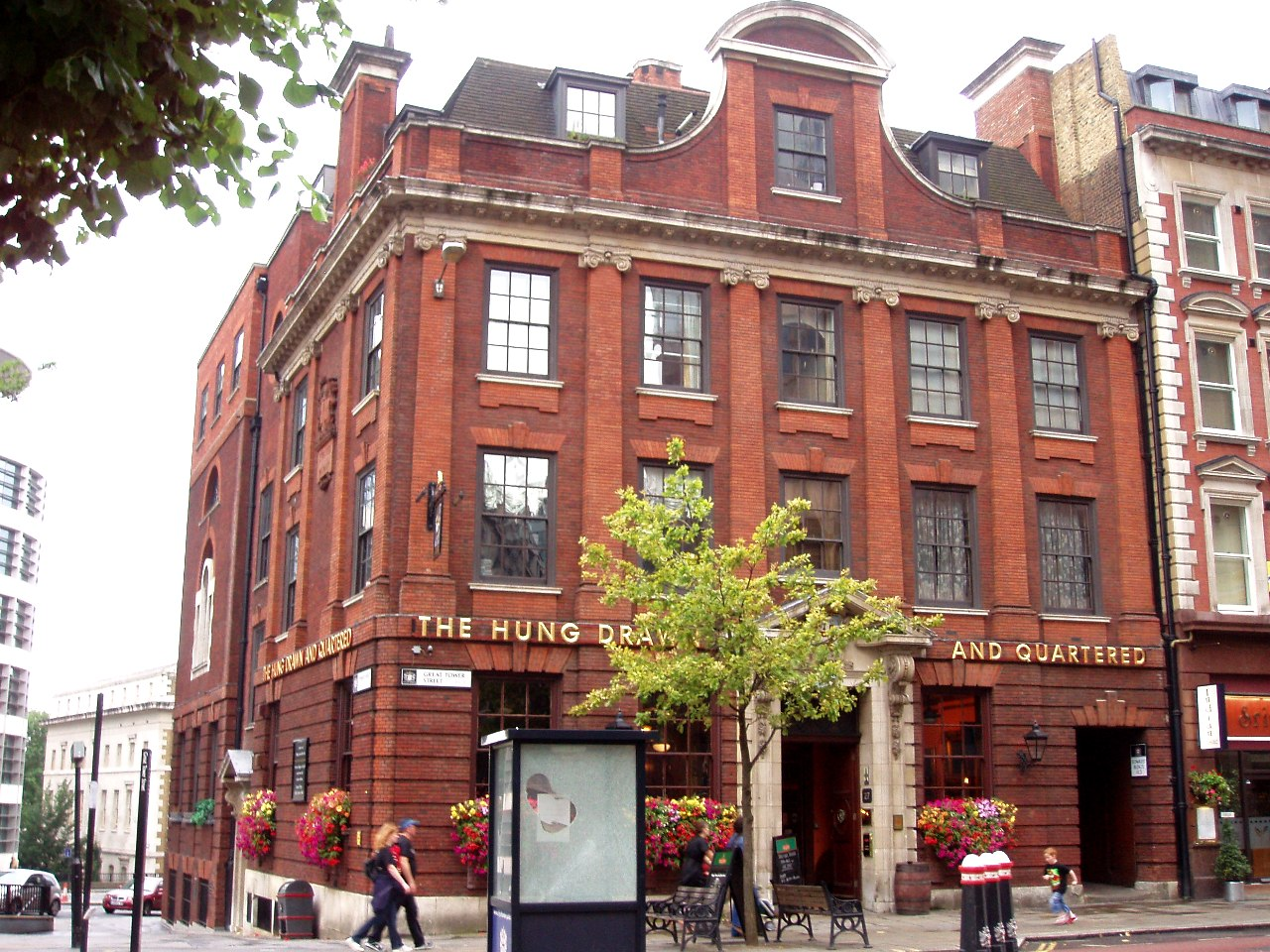 Hung Drawn and Quartered - HDQ, Great Tower Street, London EC3 Address: 26-27 Great Tower Street. Owner: Fuller Smith Turner (website). Camera: Olympus u-miniS,StylusVS License on Flickr (2011-02-12): CC-BY-SA-2.0 Flickr tags: london, england, pubs, rgl, needs rgl review, fuller's pub, the hung drawn and quartered, hung drawn and quartered